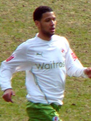 10/04/10 Cardiff V Reading, Championship, Cardiff City Stadium, Cardiff, Wales